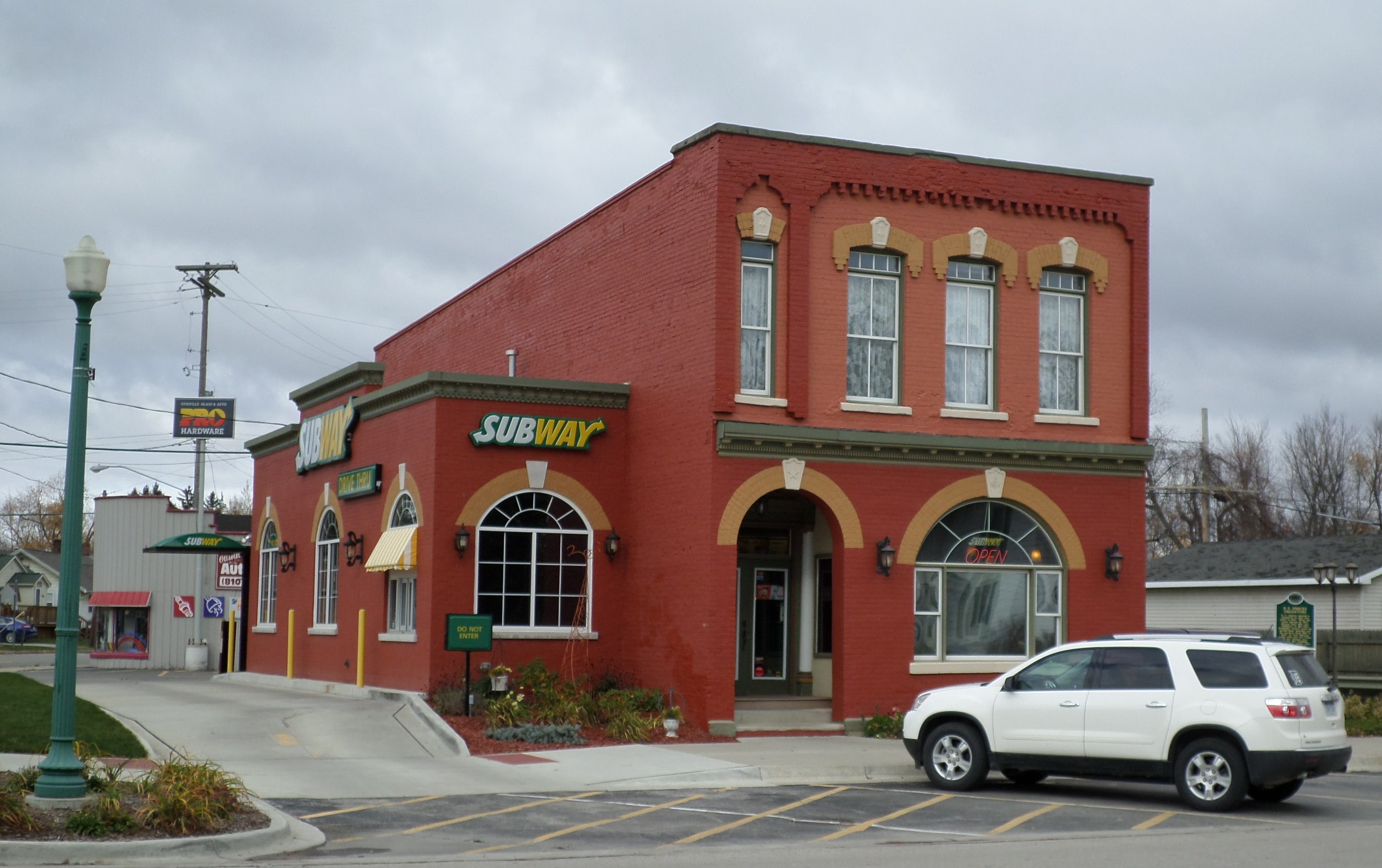 The E. S. Swayze Drugstore/Otisville Mason Lodge No. 401, now a restaurant, located at 106 E. Main St, Otisville, MI.